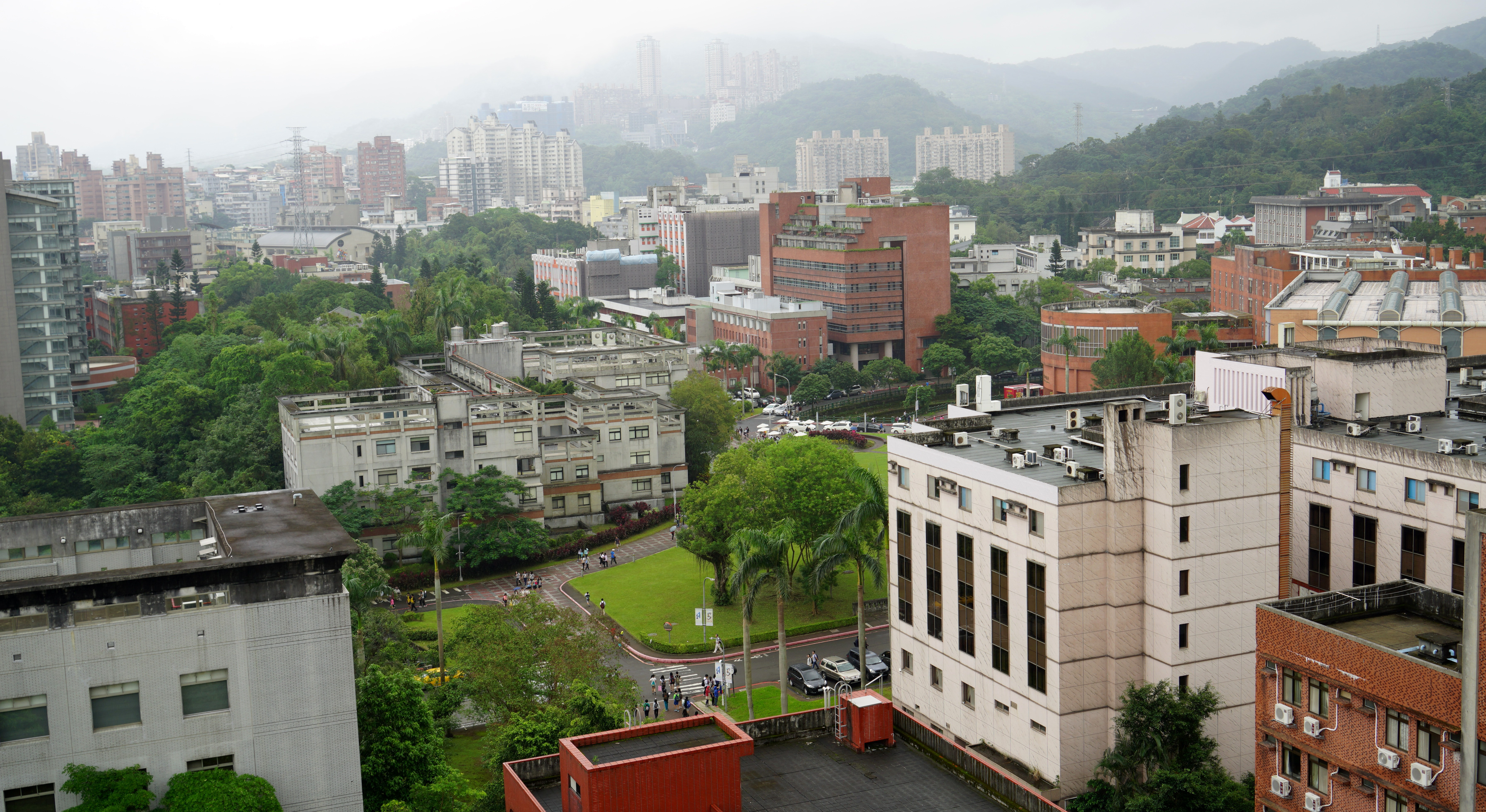 Academia Sinica view from Humanities and Social Science Building.